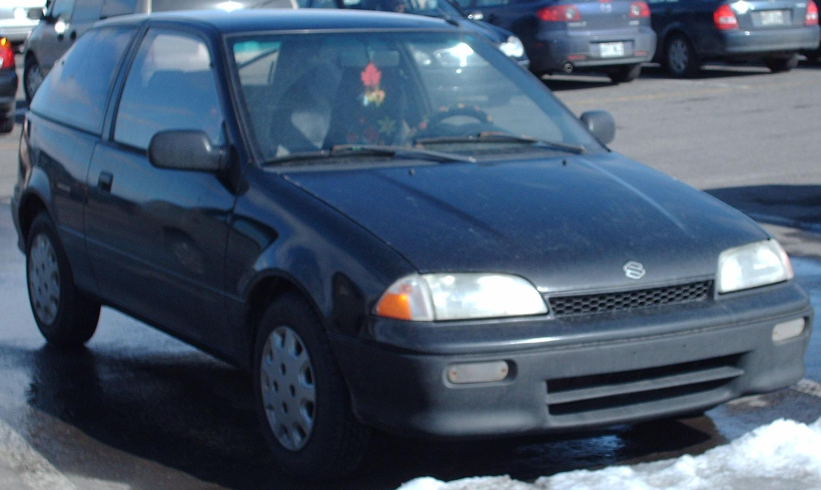 1992-1994 Suzuki Swift photographed in Montreal, Quebec, Canada.